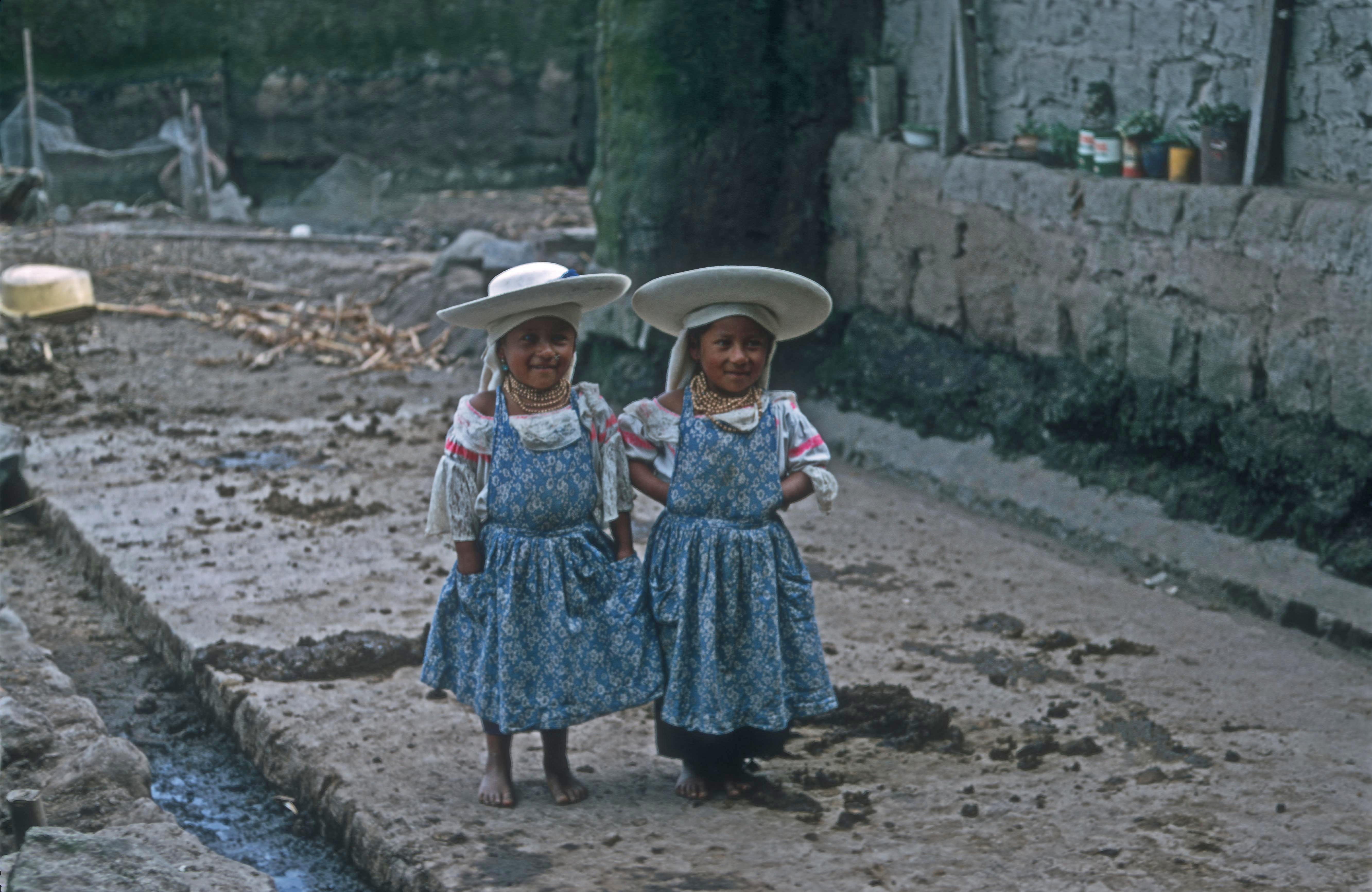 TWO LITTLE OTAVALO INDIAN GIRLS ON THE STREETS OF CAYAMBE. Note that Otavalo is the name of a city, as well as the name of a group of native American people